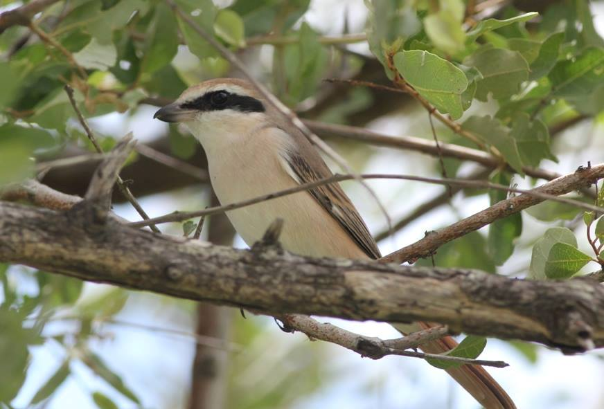 Red-tailed shrike at Vila de Sena, on the Zambezi river, central Mozambique